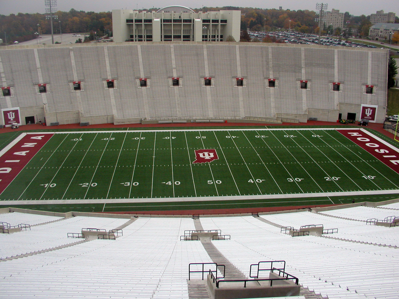 Memorial Stadium, Bloomington. View taken from luxury suites. Photo taken October, 2004 by User:Durin.